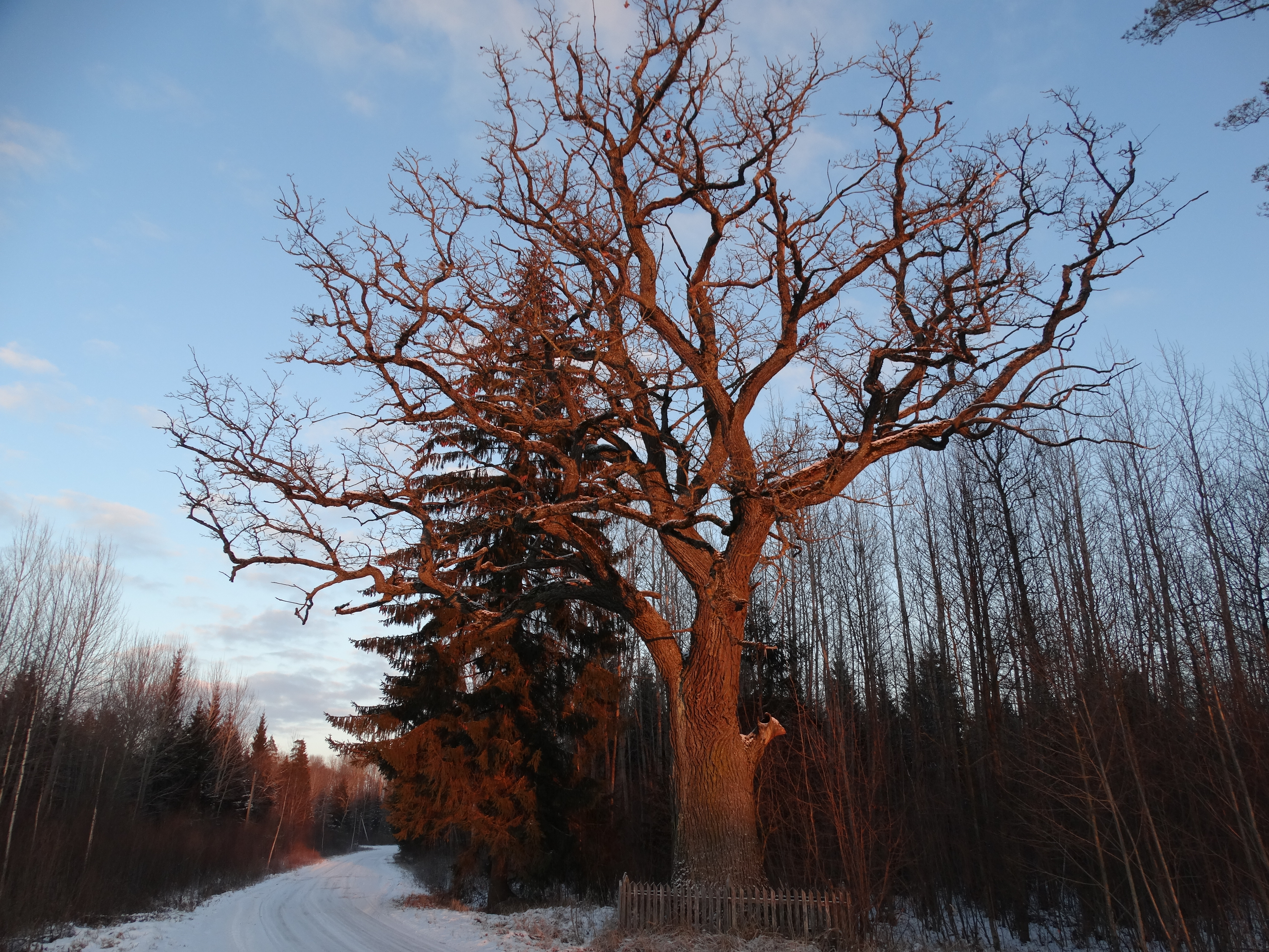 Girelės Oak, Pasvalys District, Lithuania